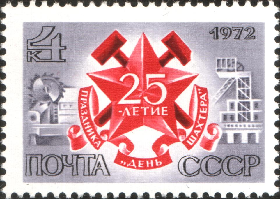 USSR stamp